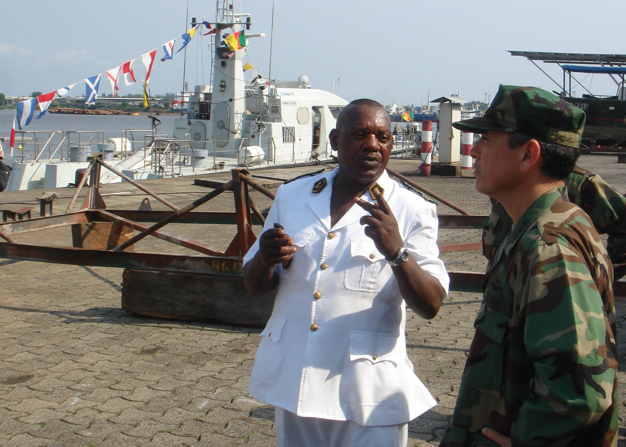 DOUALA, Cameroon (March 2, 2010) Vice Adm. Harry B. Harris Jr., right, commander of U.S. 6th Fleet, tours Cameroon navy facilities in the southwest province of Cameroon. Harris and his staff are in Cameroon as part of a scheduled visit to meet with senior military leaders of African partners. (U.S. Navy photo by Mass Communication Specialist 1st Class Gary Keen/Released)